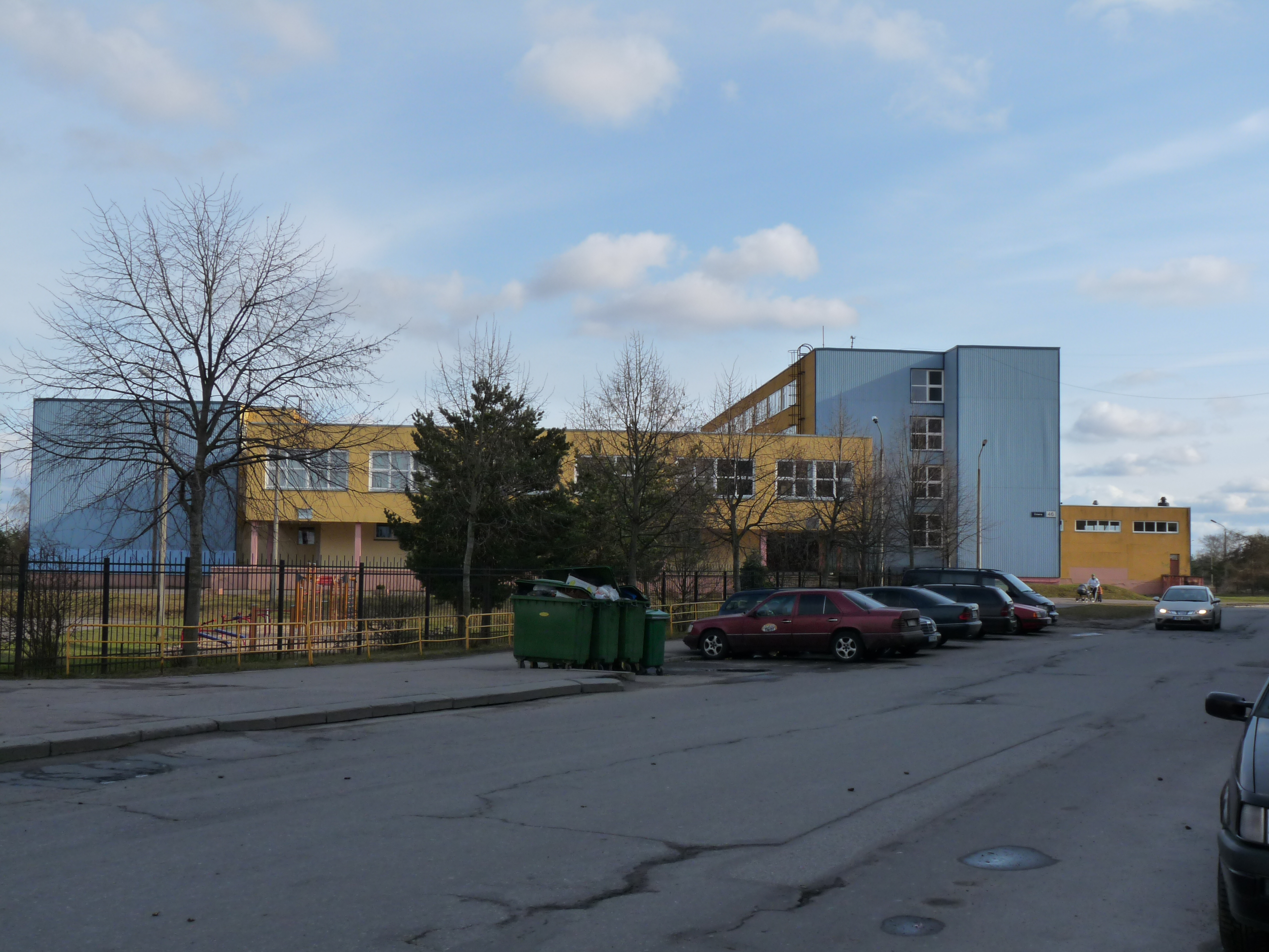 Seli gymnasium. Actually, I don't know, is it working nowadays or not.